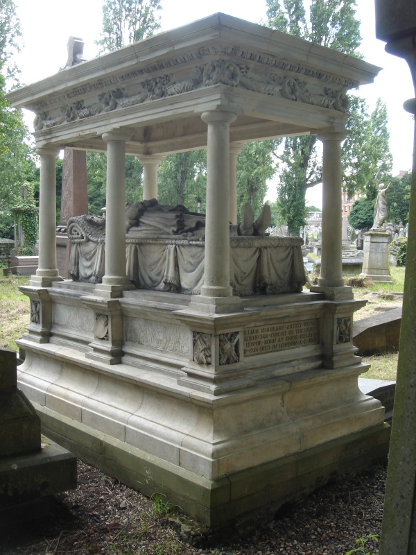 William Mulready funerary monument, Kensal Green Cemetery, London